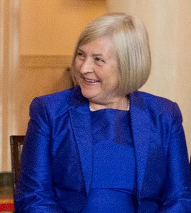 Mrs. Obama and Nordic leaders’ spouses react to President Obama’s remarks. (Official White House Photo by Amanda Lucidon)